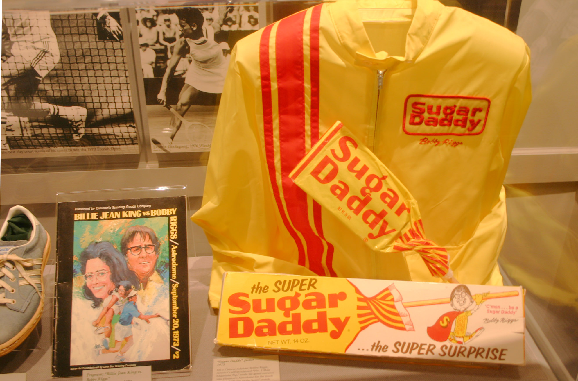 From the "Battle of the Sexes" tennis match featuring Billie Jean King and Bobby Riggs at the Astrodome in Houston, Texas.